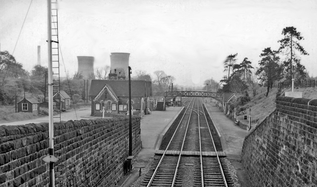 Borrowash Station. View NW, towards Derby; ex-Midland main line, London - Leicester - Derby - Manchester. The station was closed on 14/2/66.